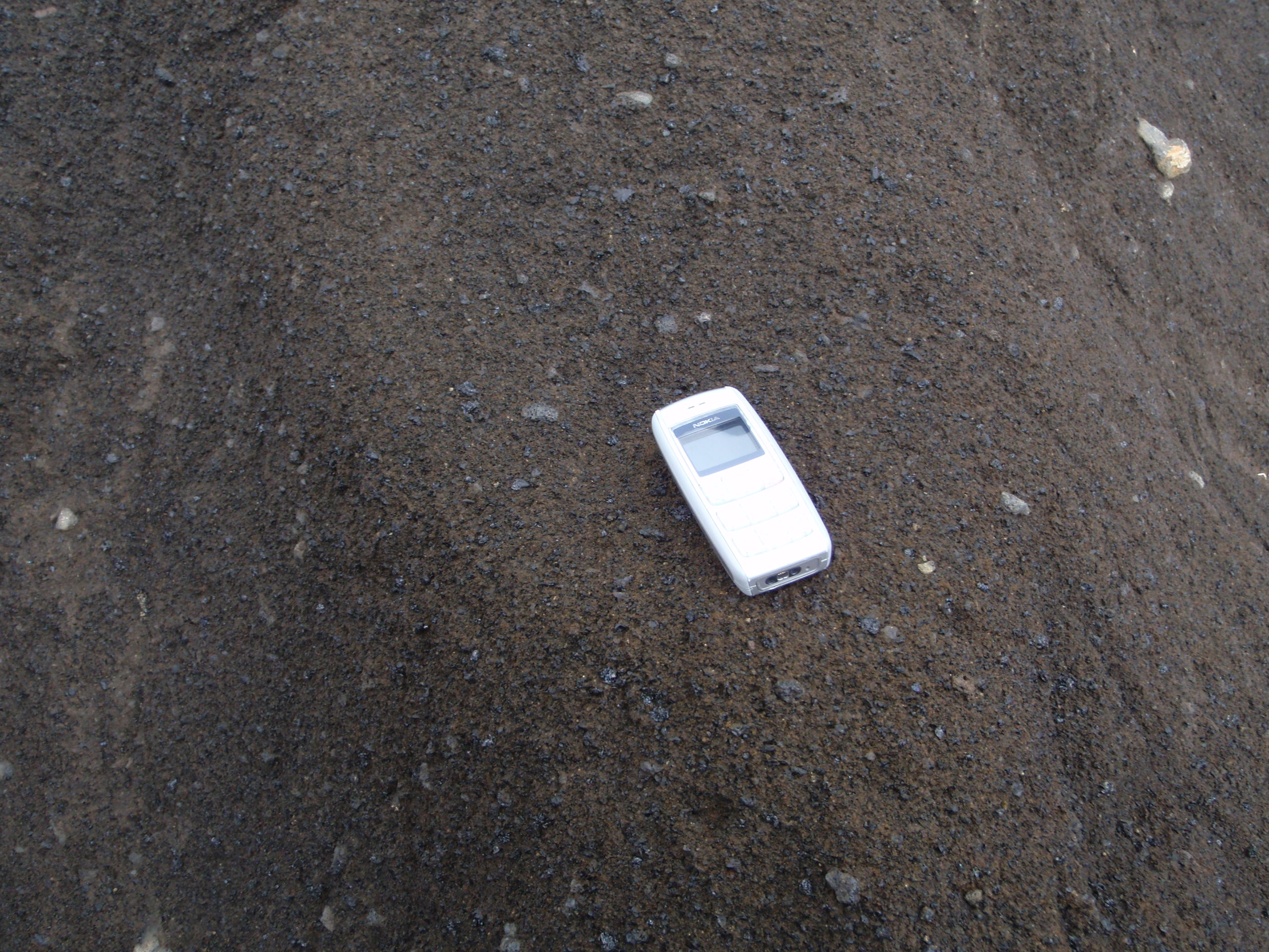 Close up -picture of hyaloclastite rock in Iceland.